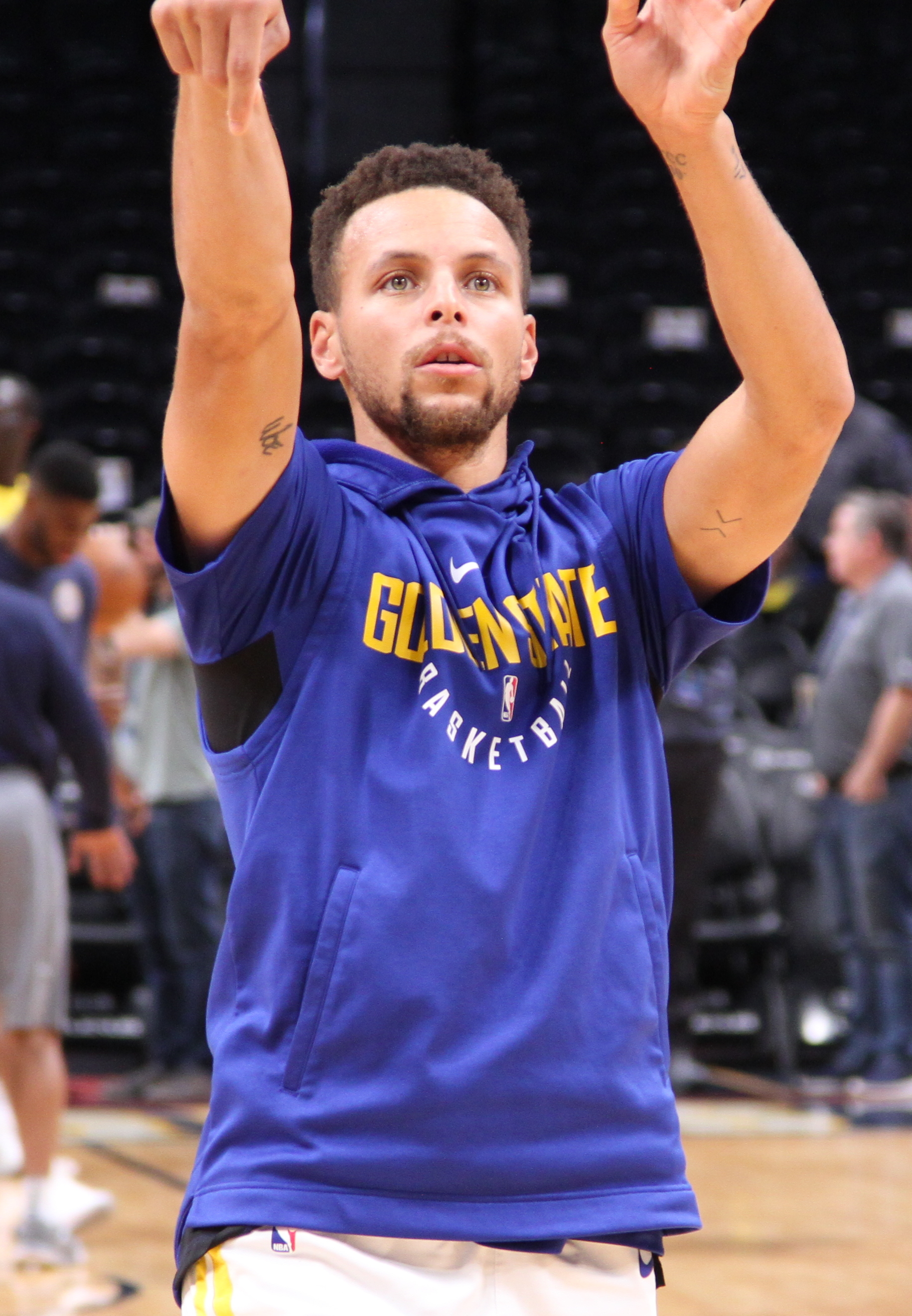 Stephen Curry practices prior to the start of a game in Denver, Colorado.